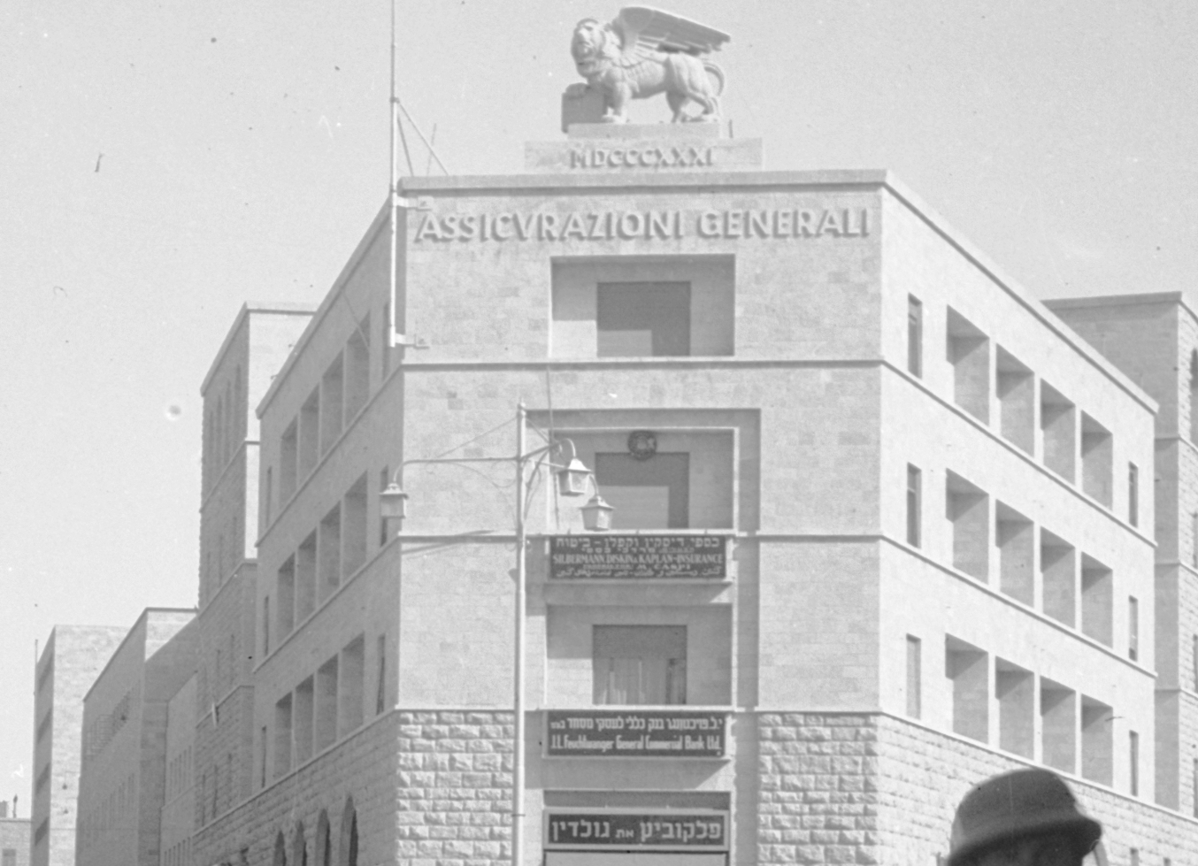 Newer Jer. [i.e., Jerusalem] streets.